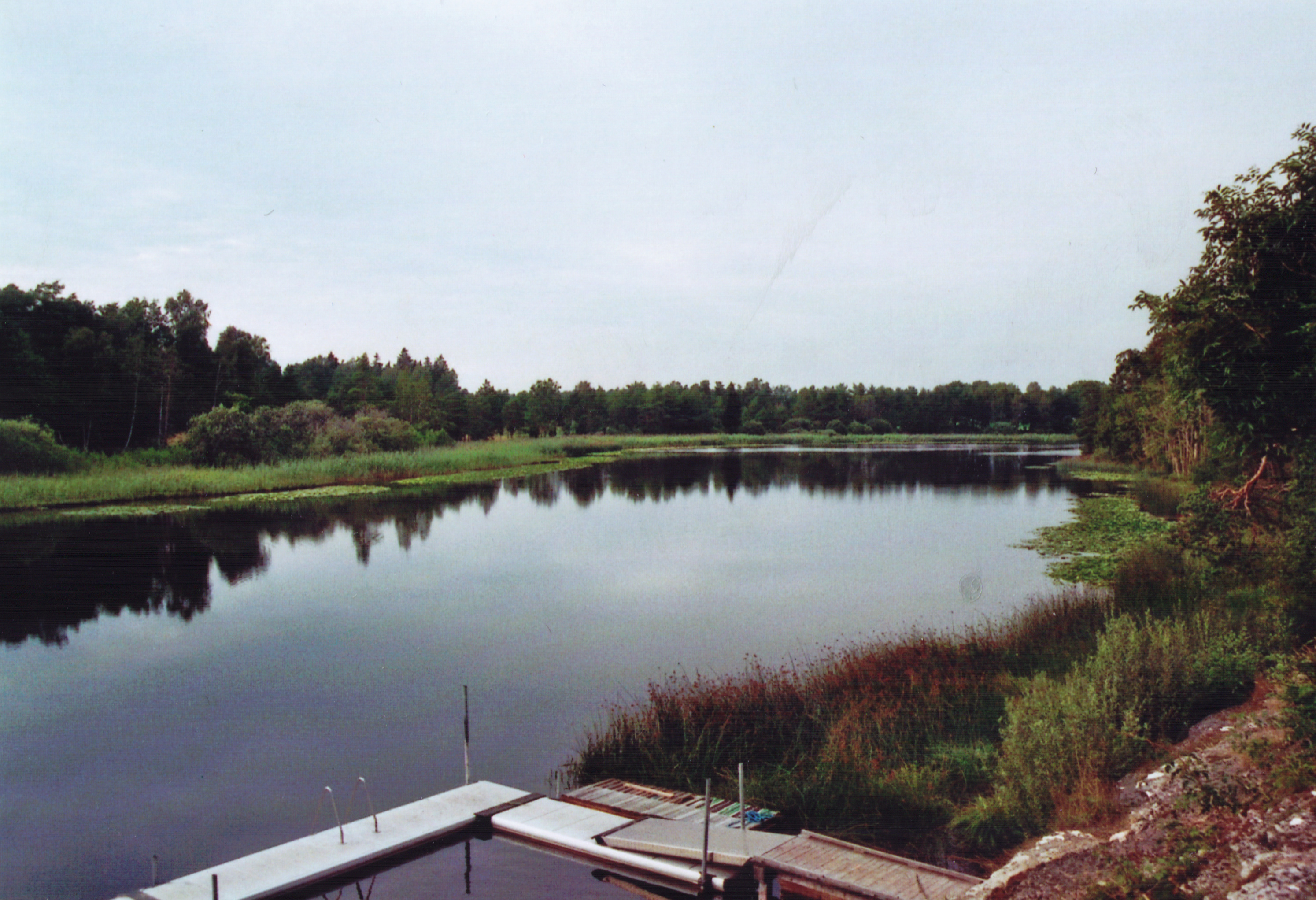 Lake Asträsk near church of Linde between Linde and Stånga, Gotland, Sweden